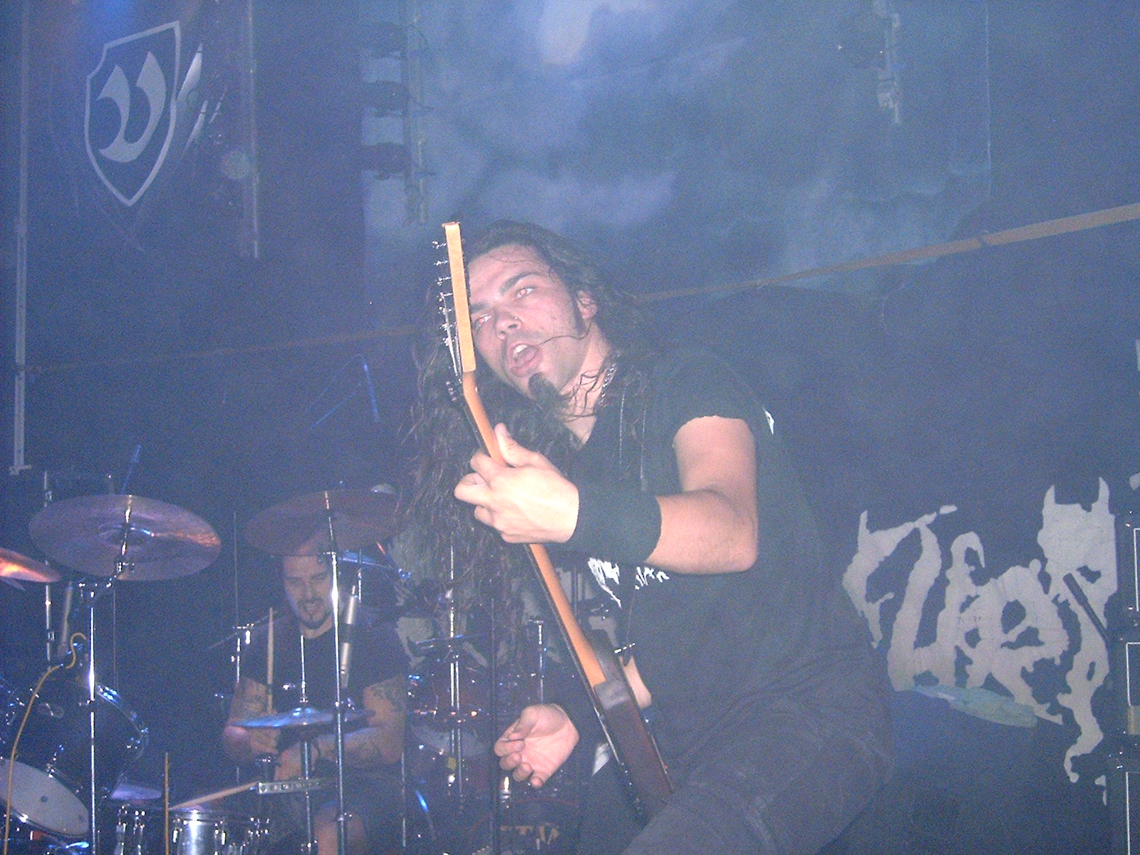 Rotting Christ a black metal band playing live on tour with Vader in Poland